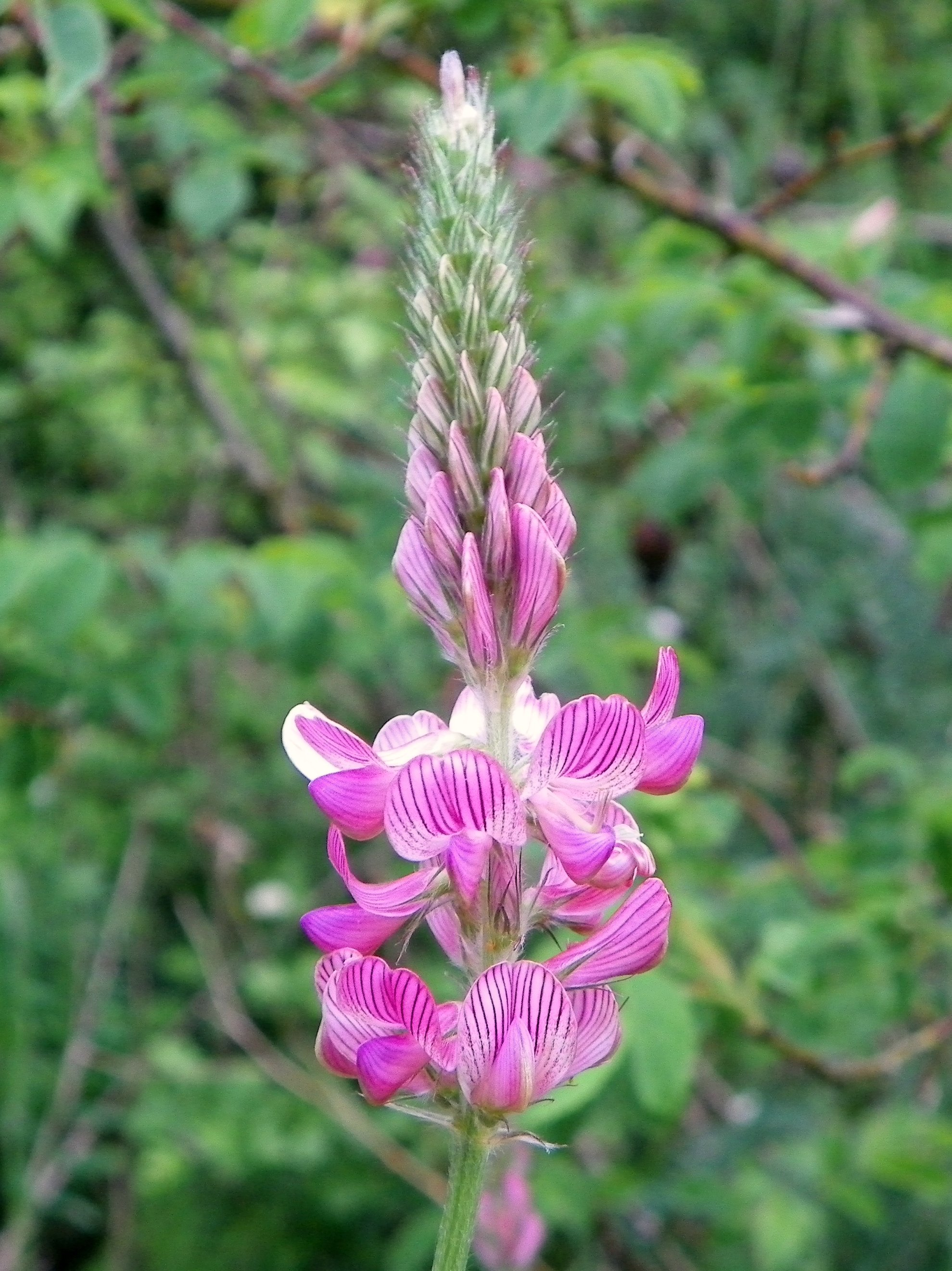 Sainfoin (Onobrychis viciifolia), Fairlands Valley Park, Stevenage, 17 May 2011.